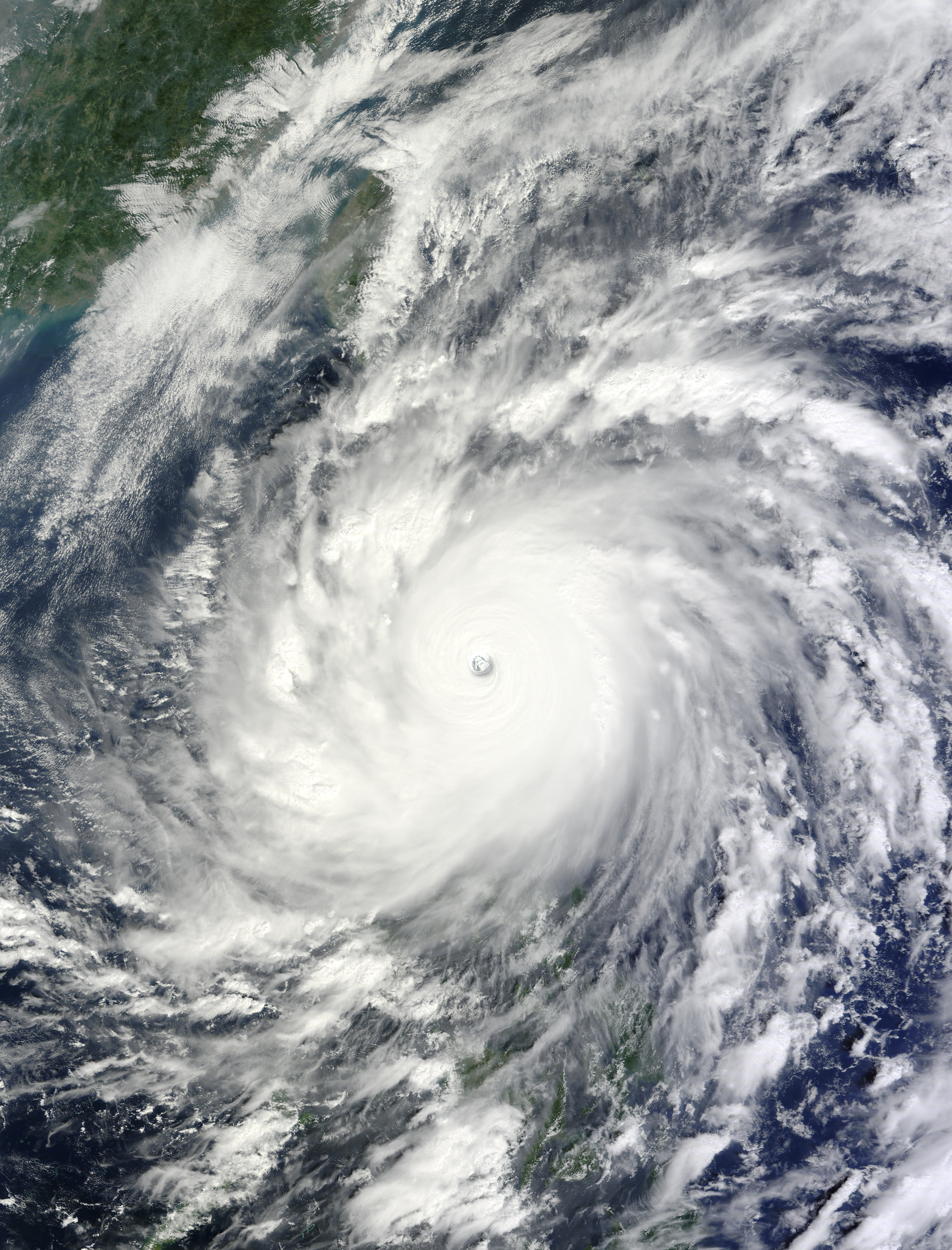 On October 18, 2010, Typhoon Megi approached and made landfall in the northeastern Isabela Province of the Philippines. Spanning more than 600 kilometers (370 miles) across, it was the most intense tropical cyclone of the year to date. This image was taken by the Moderate Resolution Imaging Spectroradiometer (MODIS) on NASA’s Terra satellite at 10:35 a.m. Philippine Time (02:35 UTC) on October 18, 2010. The official international name of the storm is Megi, which means “catfish” in Korean. But the storm is known locally as Juan, as the Philippine Atmospheric, Geophysical and Astronomical Services Administration has its own naming system.